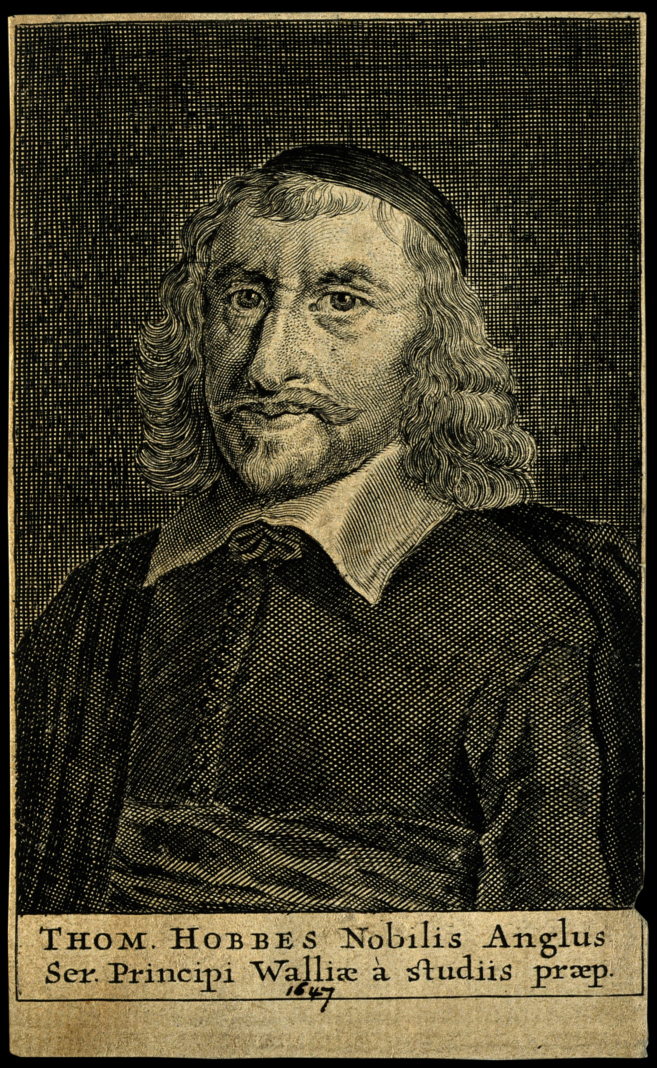 Thomas Hobbes. Line engraving after R. Vaughan, 1651. Iconographic Collections Keywords: portrait prints; engravings; R. Vaughan; Thomas Hobbes